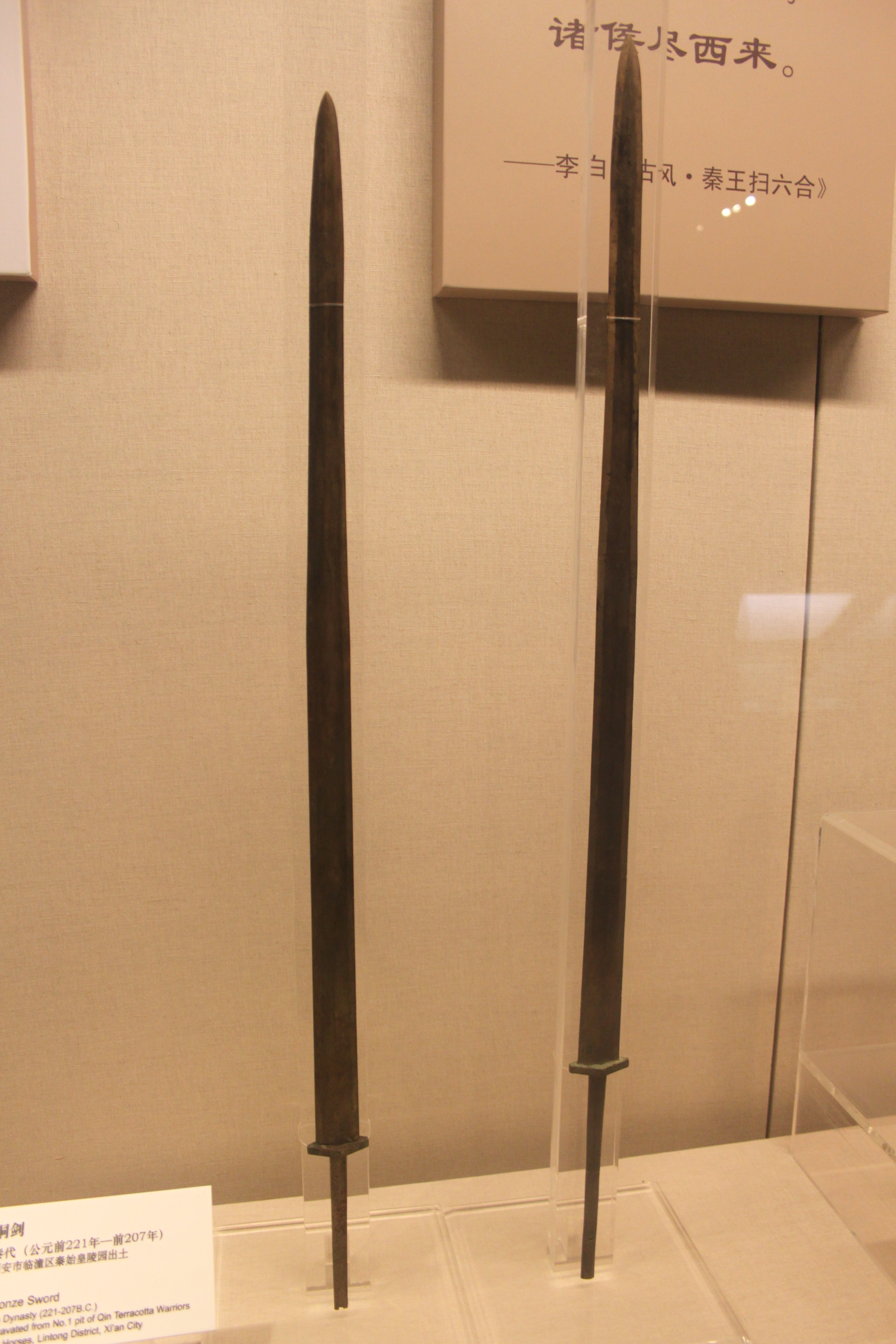 bronze swords